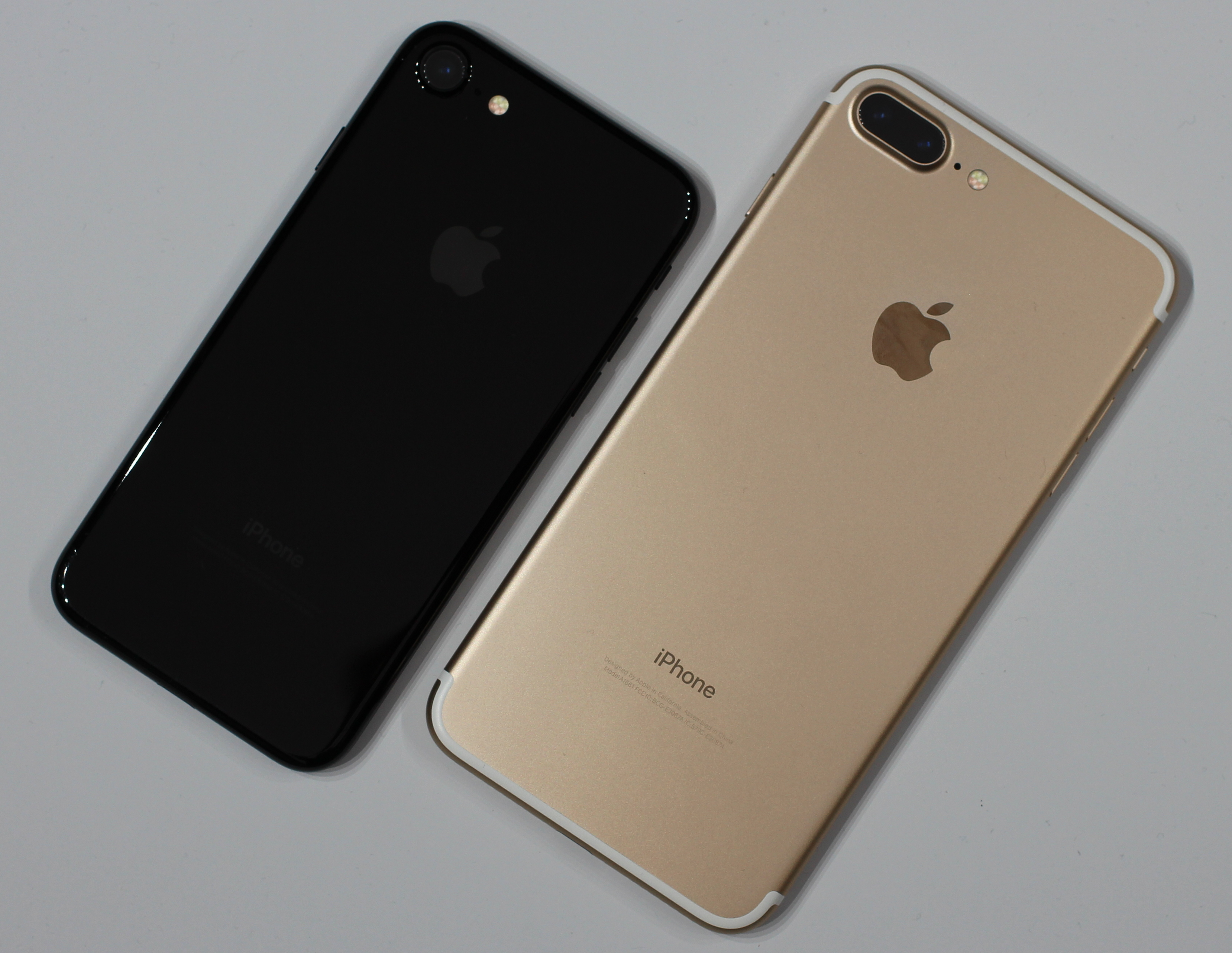 Photo of an Apple iPhone 7 in "jet black" and an Apple iPhone 7 Plus in "gold".